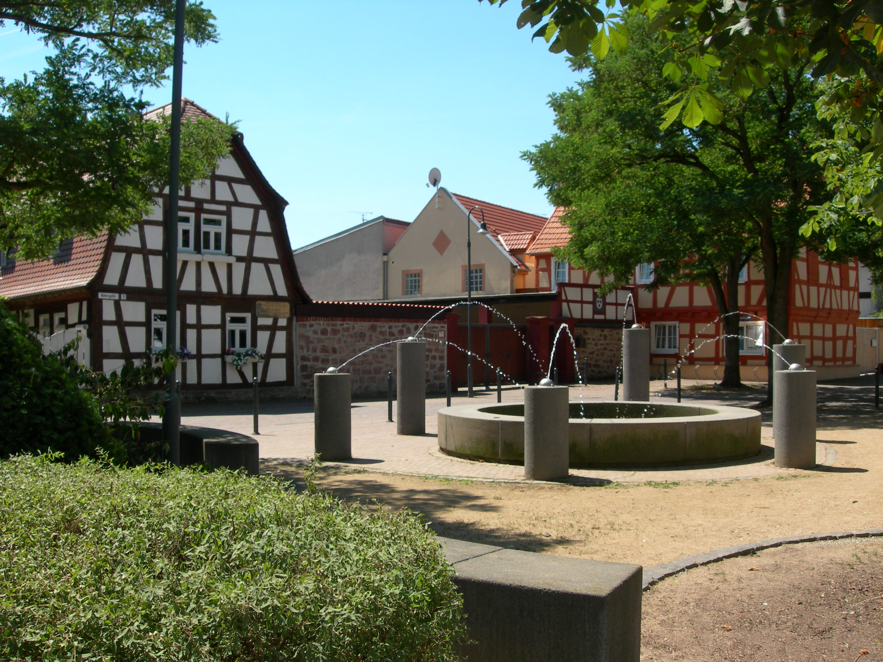 Mörfelden-Walldorf (Hesse), historic houses